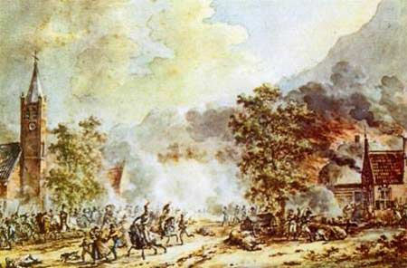 A 19th-century painting depicting the Battle of Castricum (1799).